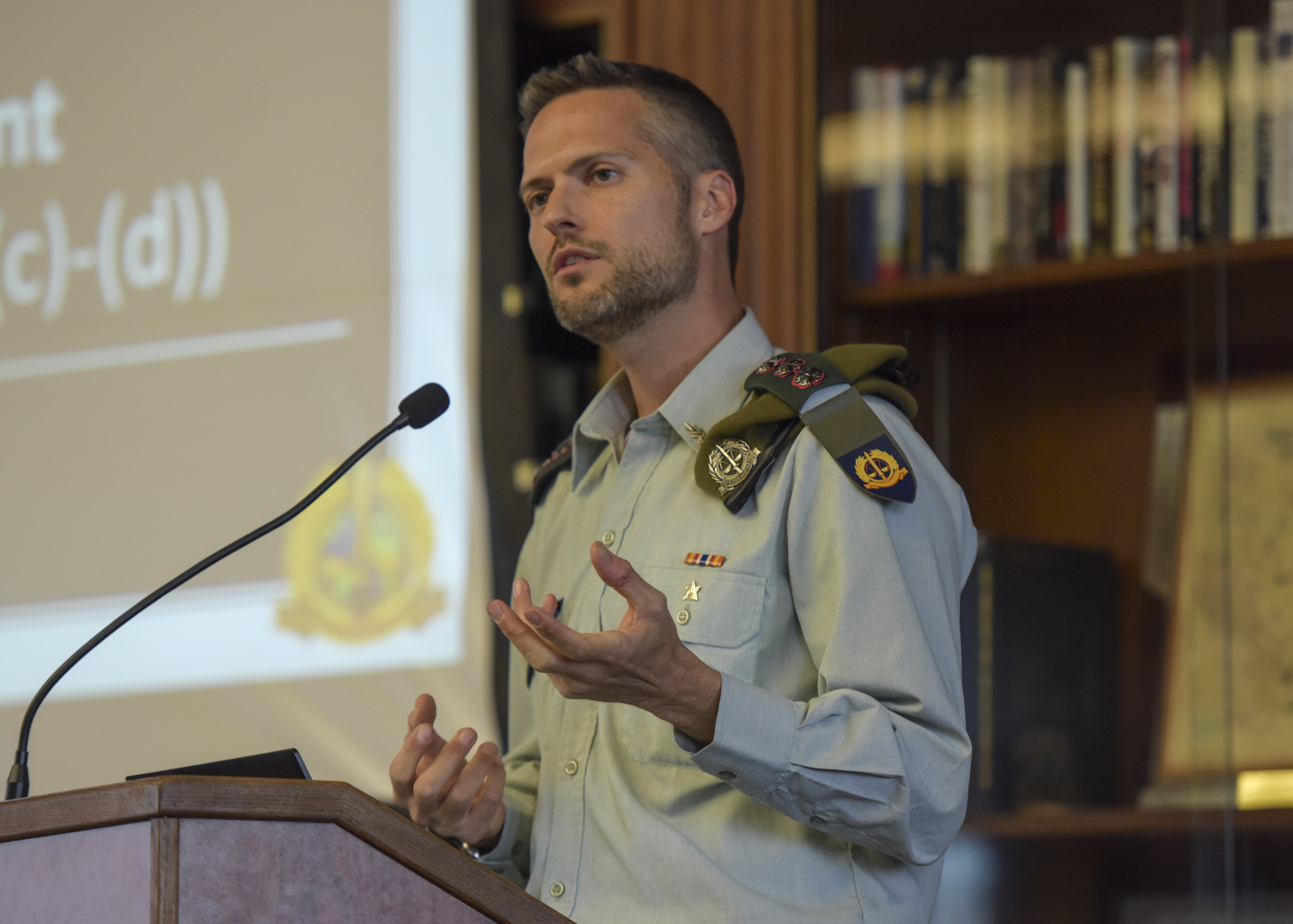 191218-N-WD117-211 NEWPORT, R.I. (Dec. 18, 2019) Eran Shamir-Borer, international law department, Israeli Defense Forces, discusses European and Israeli perspectives on the San Remo manual during a U.S. consultative meeting for the revision of the “San Remo Manual on International Law Applicable to Conflicts at Sea” at the U.S. Naval War College, Dec. 18. The event is a series of panels exploring potential changes to the San Remo Manual, which is a restatement of the law of naval warfare. (U.S. Navy photo by Jaima Fogg/Released)